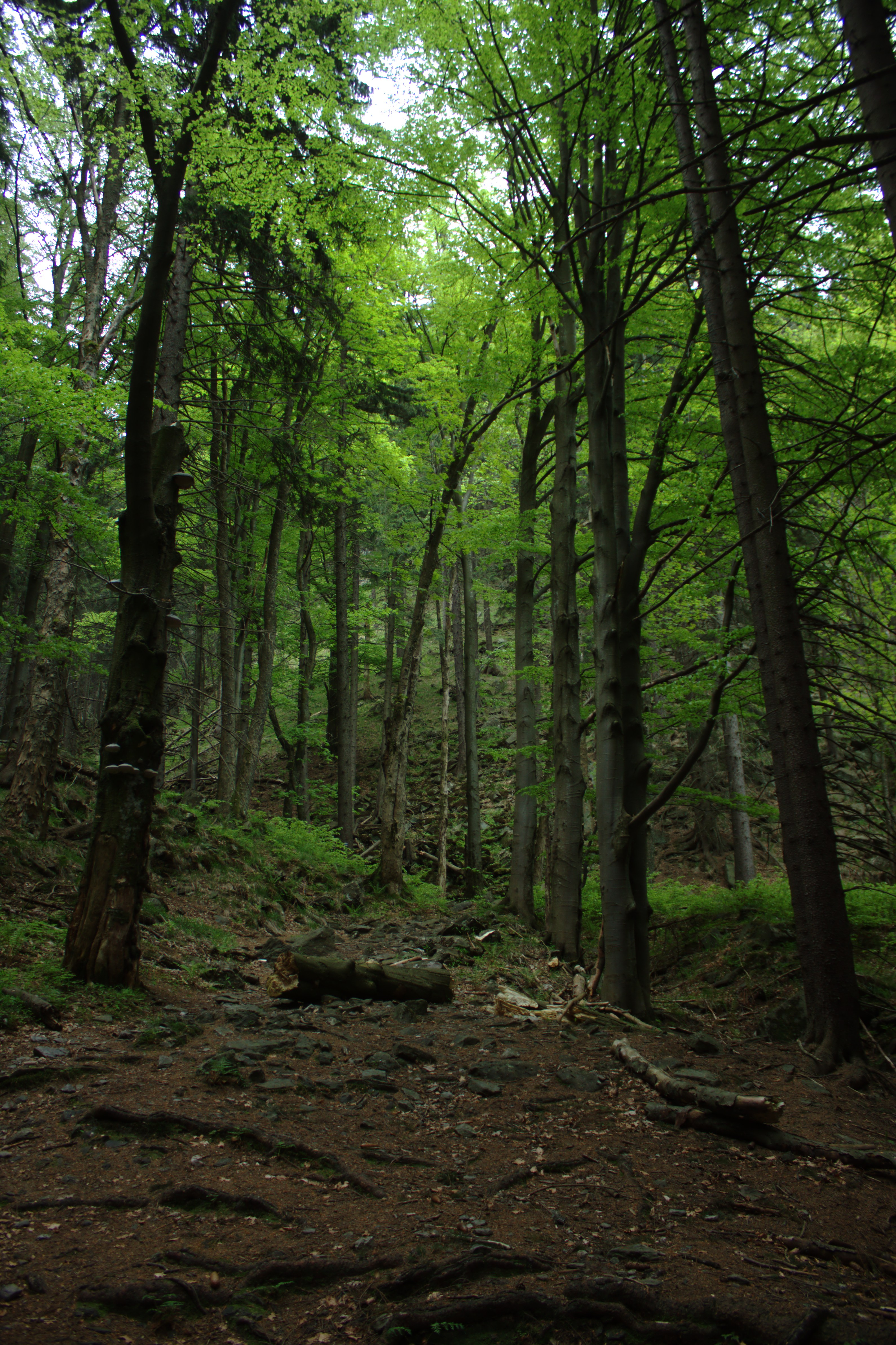 Forest in Divoký důl valley west from Praděd, Olomouc Region, CZ